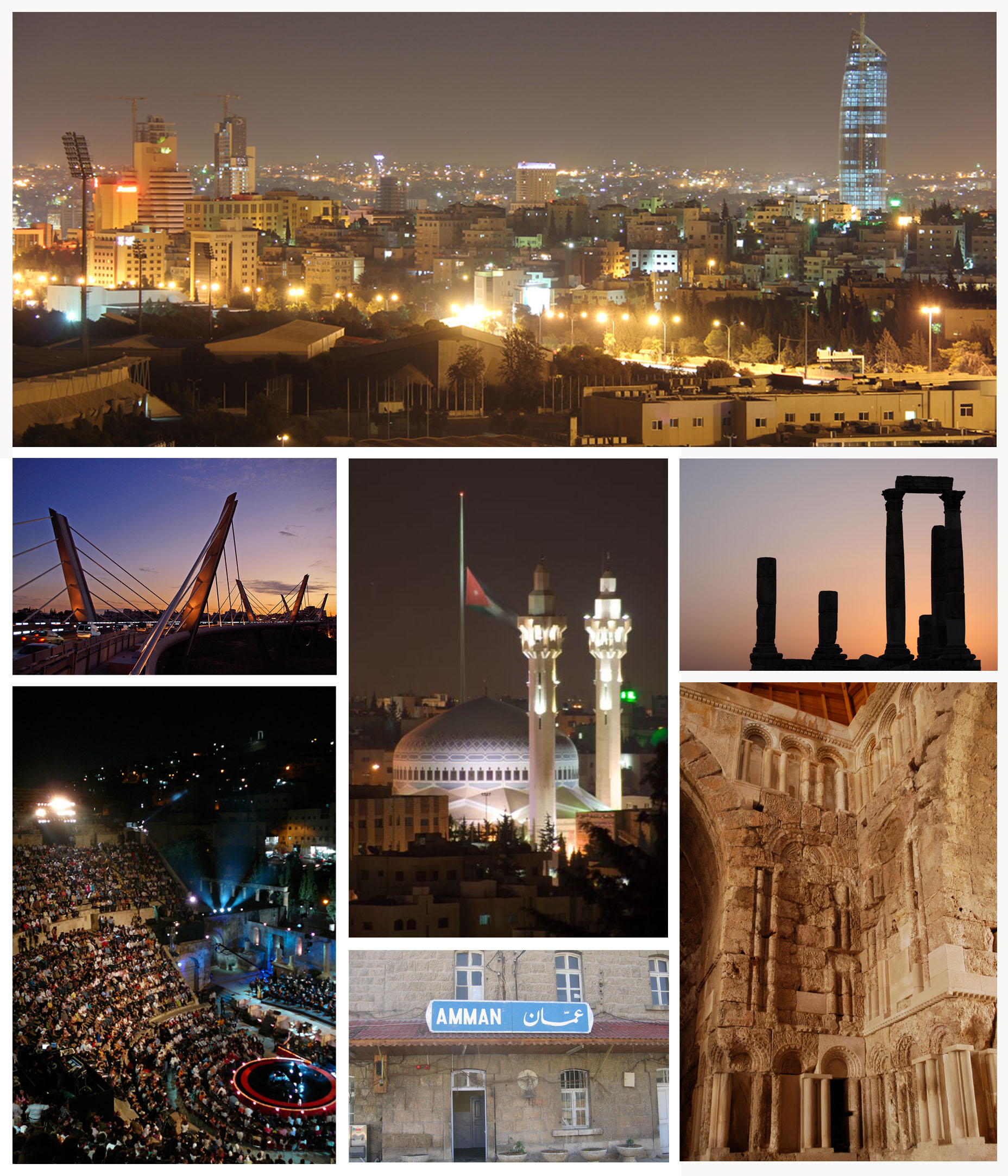 A combination for the pictures of ِAmman, Jordan. The place where the pictures have been taken from right to left and above to below: Amman's skyline as seen from Sport city, Temple of Hercules at Amman citadel, Omayyad palace, Ottoman Hejaz Railway station, Roman theater, Abdoun bridge, King Abdulla I mosque and Raghadan flagpole.